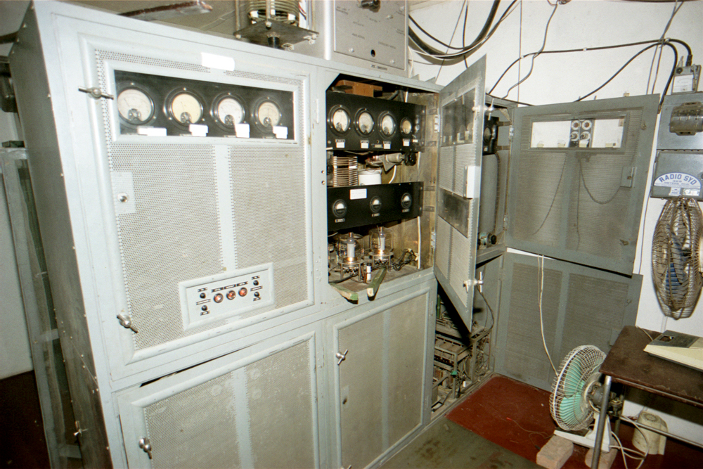 The 2.5 kW transmitter of Radio Syd operating on 909 kHz. The transmitter was originally used in Hörby, Sweden.